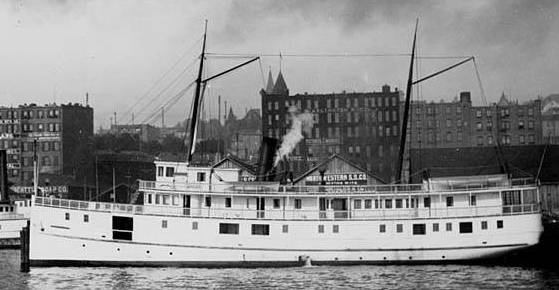 Steamer ROSALIE docked at the foot of University St., Seattle, 1894